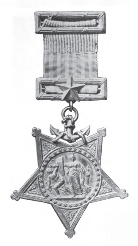 Obverse of Navy Medal of Honor with first ribbon, awarded to Master-at-Arms William M. Carr for actions in the American Civil War